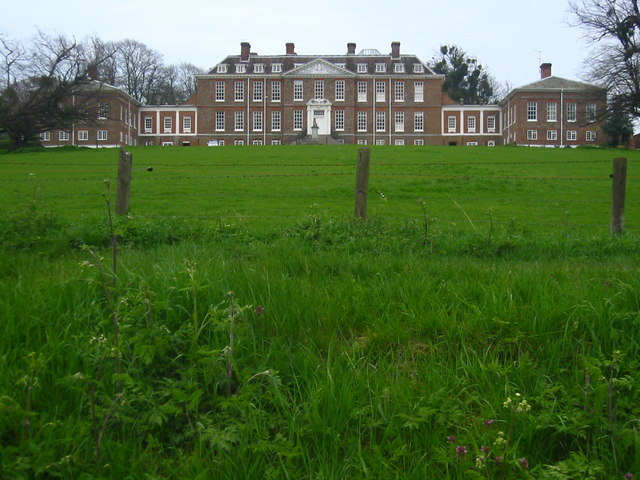 Ampthill Park House. Ampthill Park House was re-built between 1687-1689 under contract from the lease-holding Ossory family, by John Grumbold, the Cambridge mason and architect. It was altered between 1704-1707 under the direction of John Lumley and again by Robert Chambers between 1786-1772. The grounds were landscaped by Capability Brown.